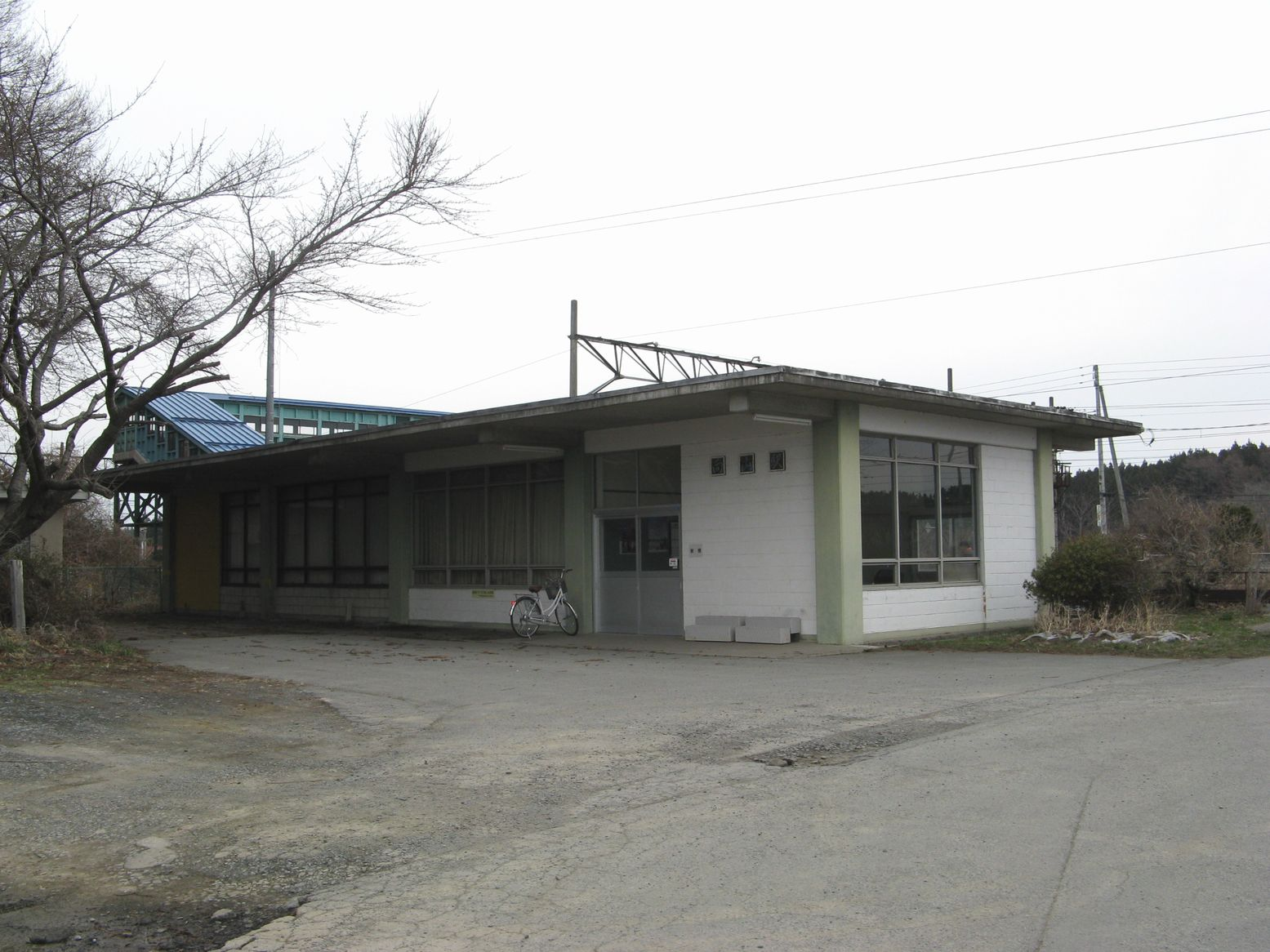 Mukaiyama Station on the Aoimori Railway Line in Oirase, Aomori